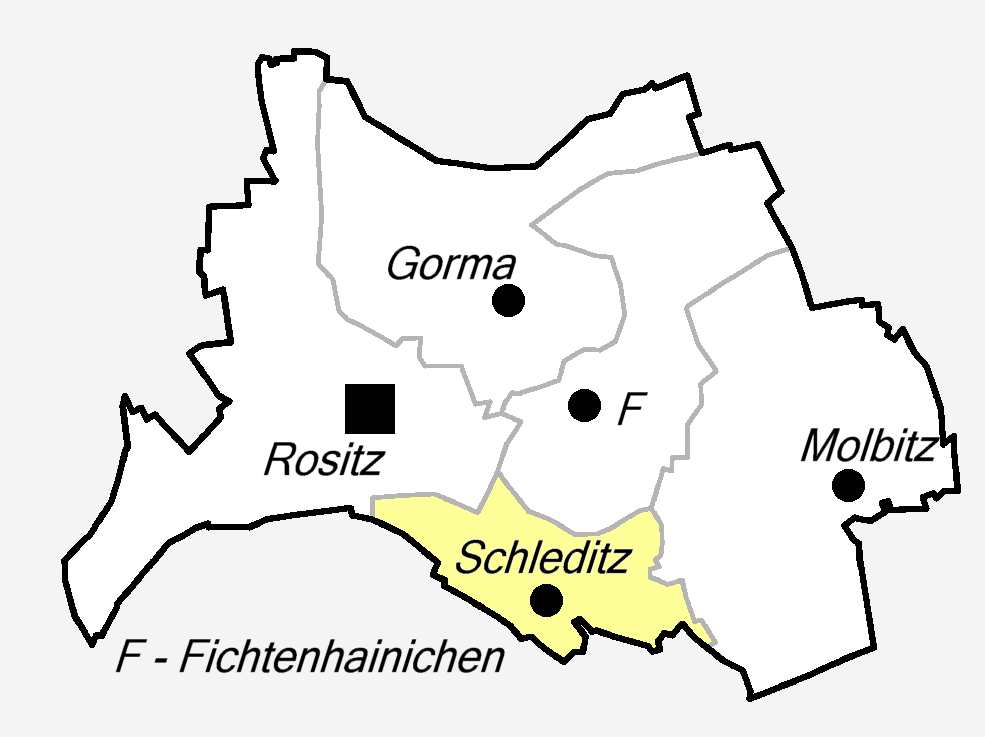 District-Maps of Schleditz in Rositz village.